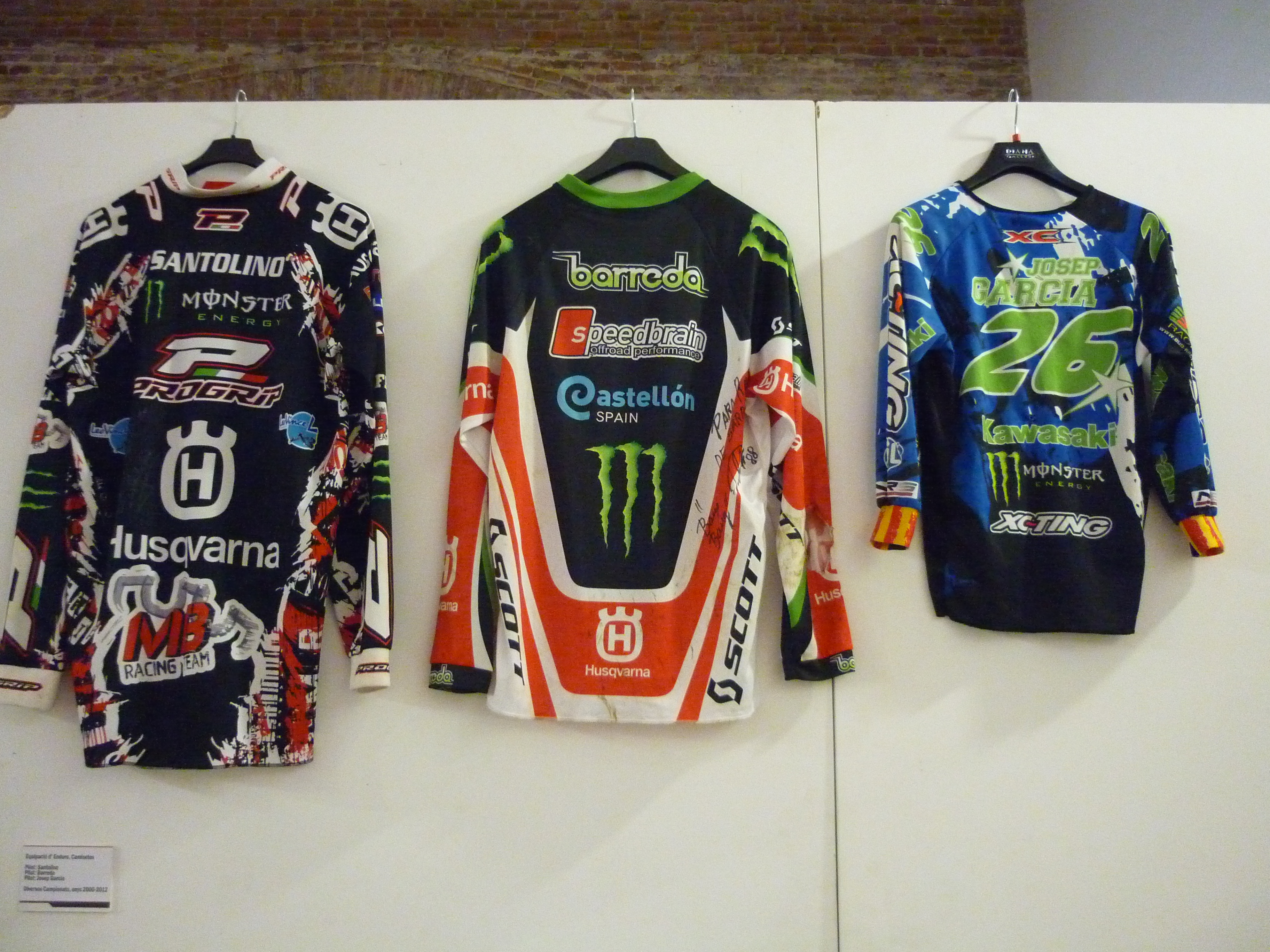 Three sweatshirts used by Lorenzo Santolino, Joan Barreda and Josep Garcia (from left to right) between 2010 and 2012